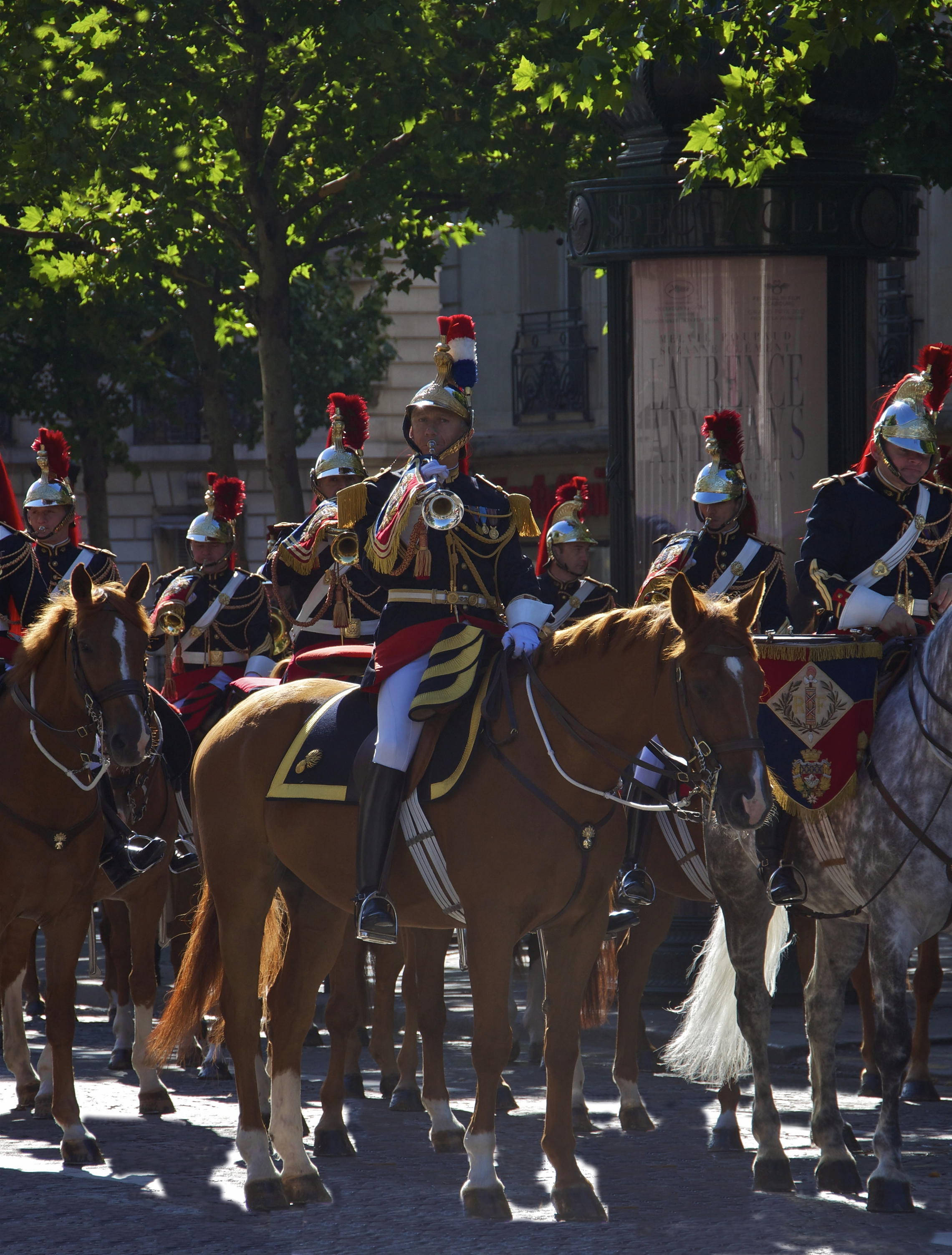 The Officer (captain Jacques Leblay), Trompette-Major (conductor) of the fanfare of the cavalry regiment of the Garde Républicaine, in Paris, Bastille Day 2012. Alone among all the other horsemen (except his deputy), he is wearing on his helmet a tricolor panache